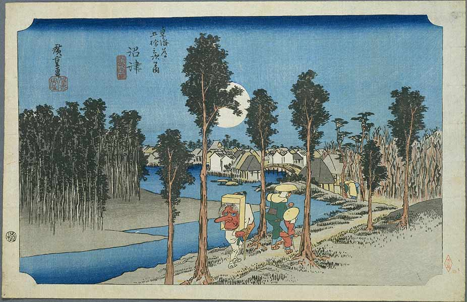 Numazu on the Tokaido, ukiyo-e prints by Hiroshige